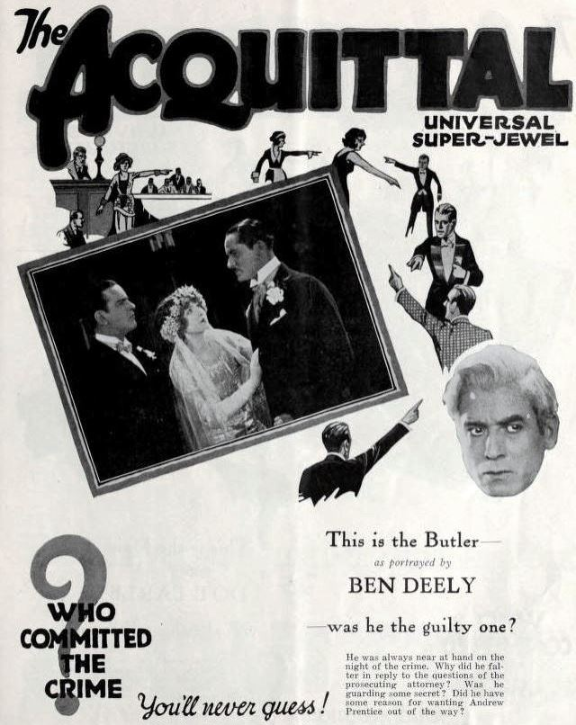 Advertisement for the American drama film The Acquittal (1923) with Ben Deeley, on page 7 of the October 27, 1923 Universal Weekly.